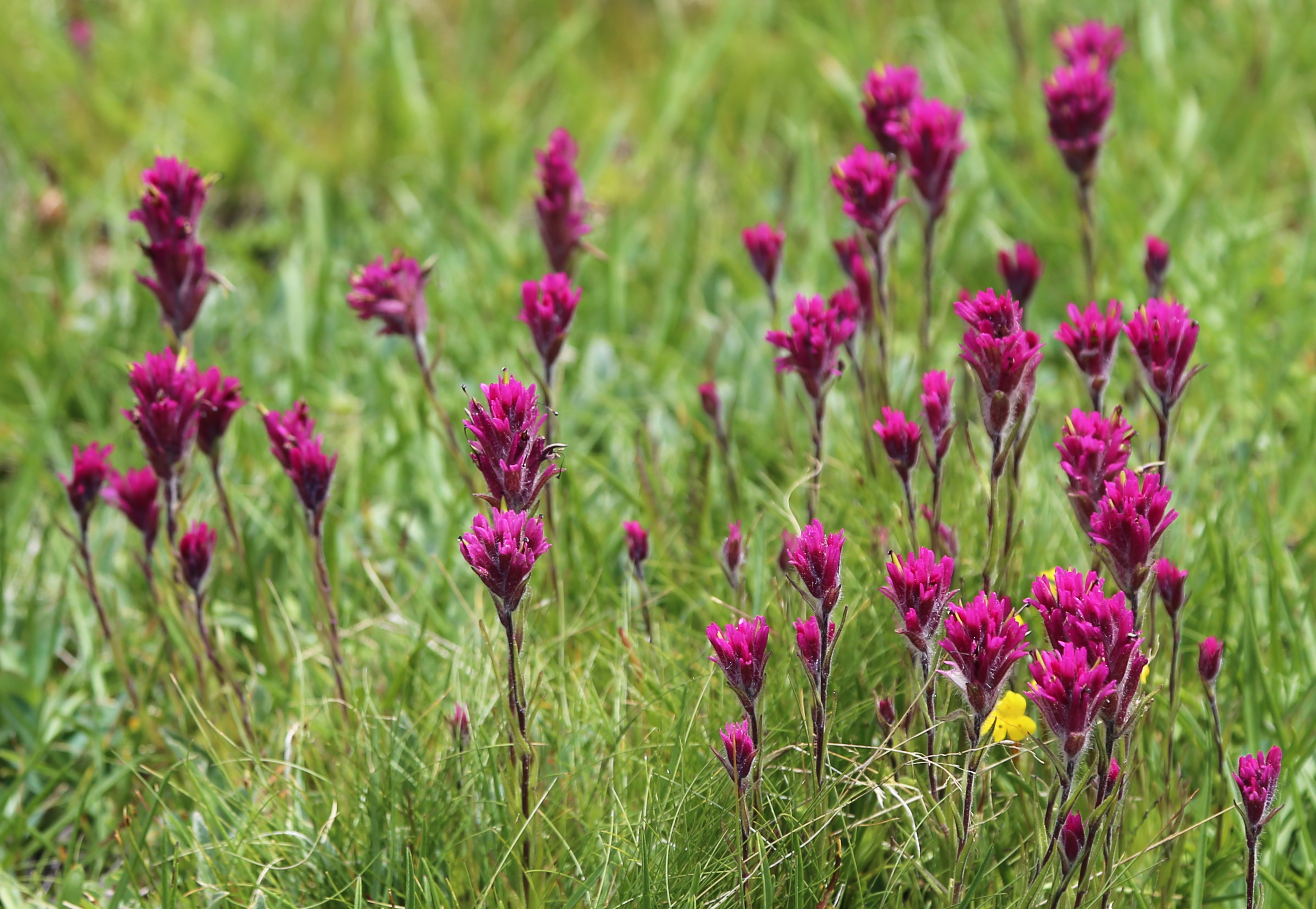 Meadow paintbrush (Castilleja lemmoni), group of dark pink flowers in meadow near stream. In meadow at head of Chickenfoot Lake, Little Lakes Valley, John Muir Wilderness, Sierra Navada USA.